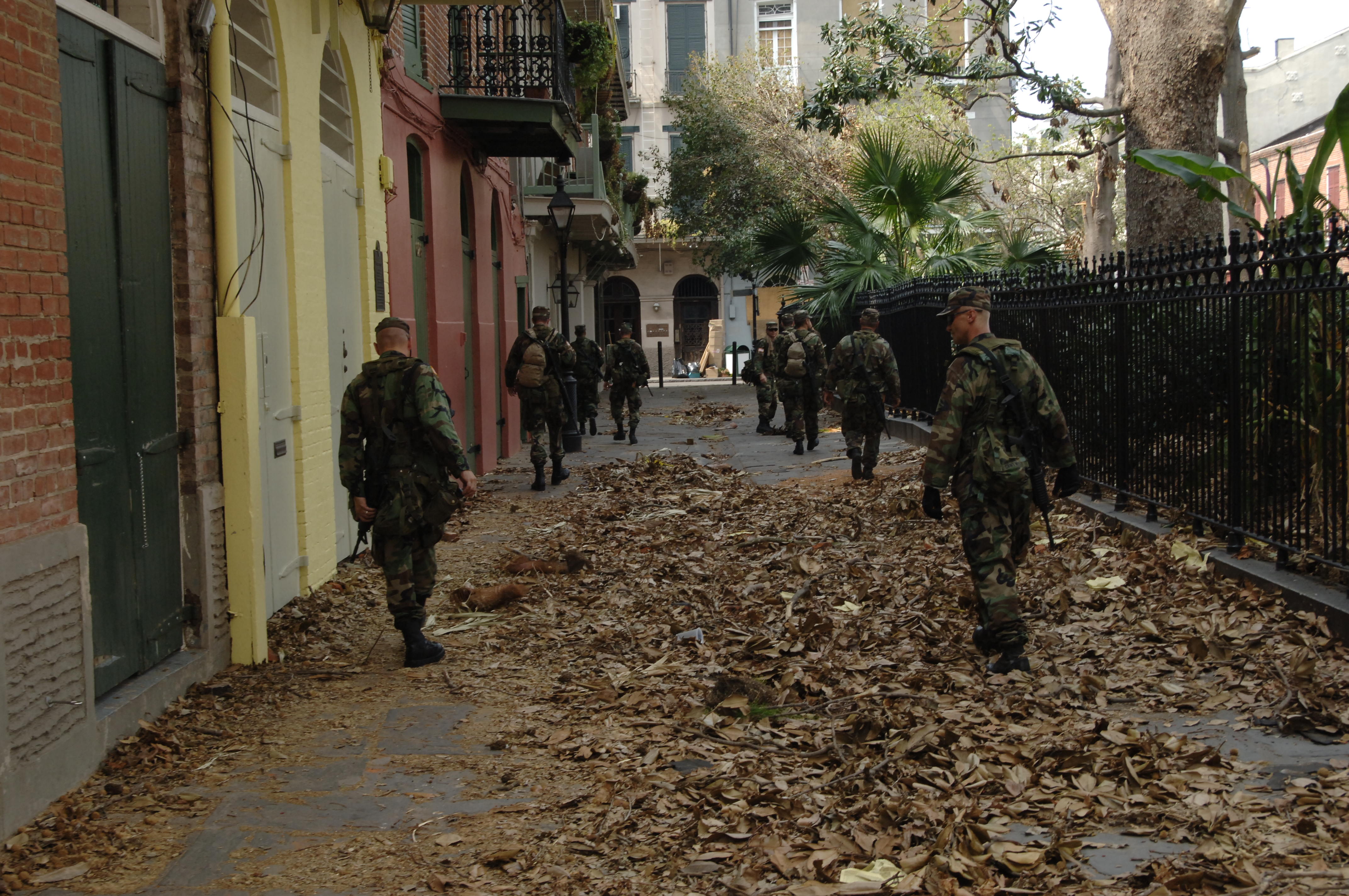 Infantrymen from the Oklahoma Army National Guard patrol the French Quarter in New Orleans in 2005 after the Hurricane Katrina disaster. View is in Pirates Alley looking towards Chartres Street.